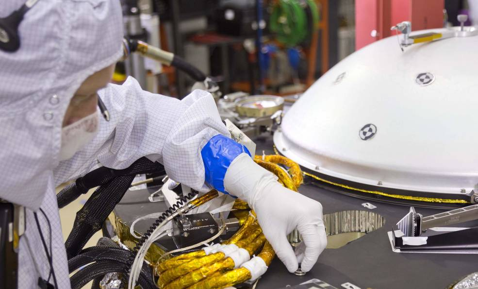 insight name chip